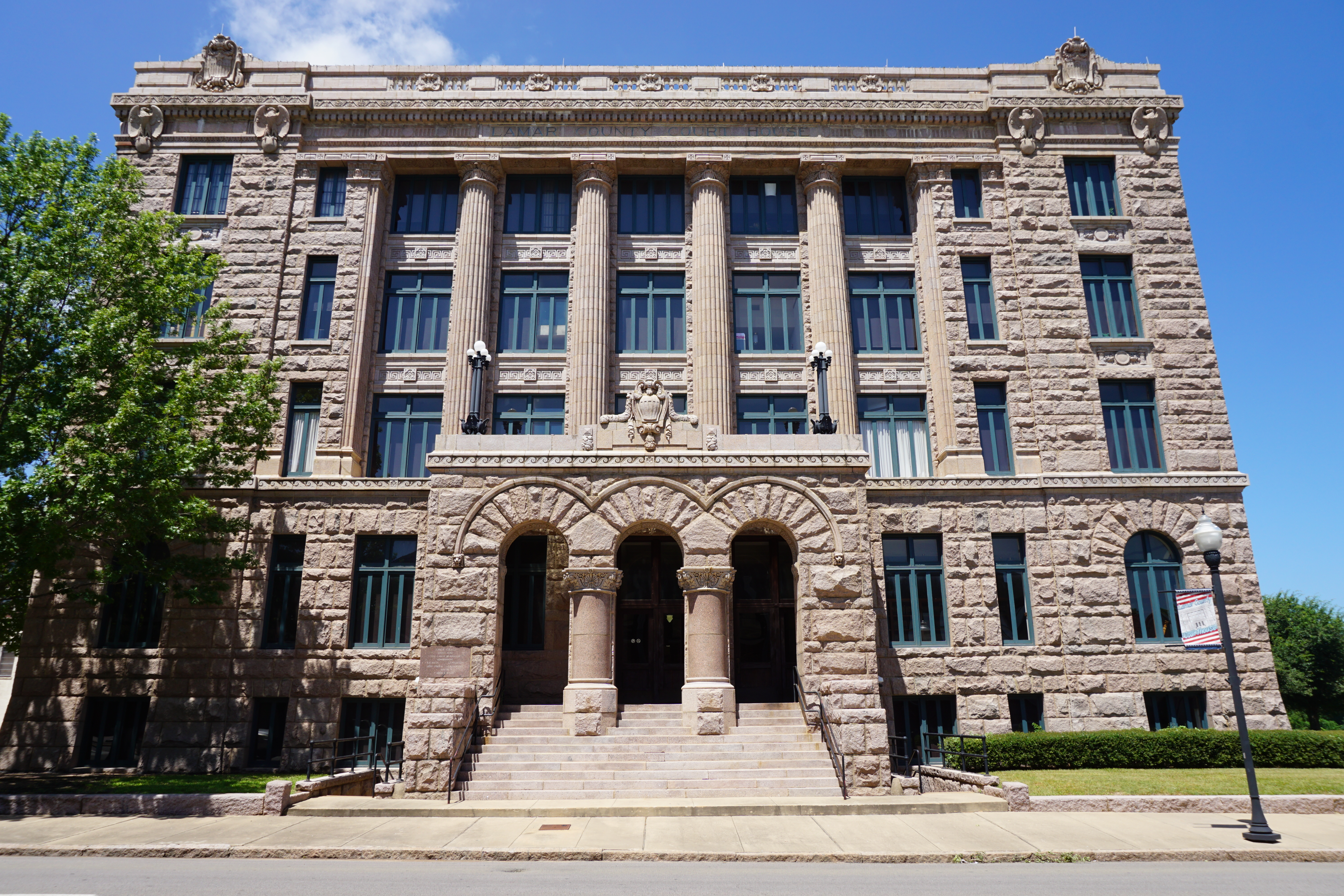 The Lamar County Courthouse in Paris, Texas (United States).